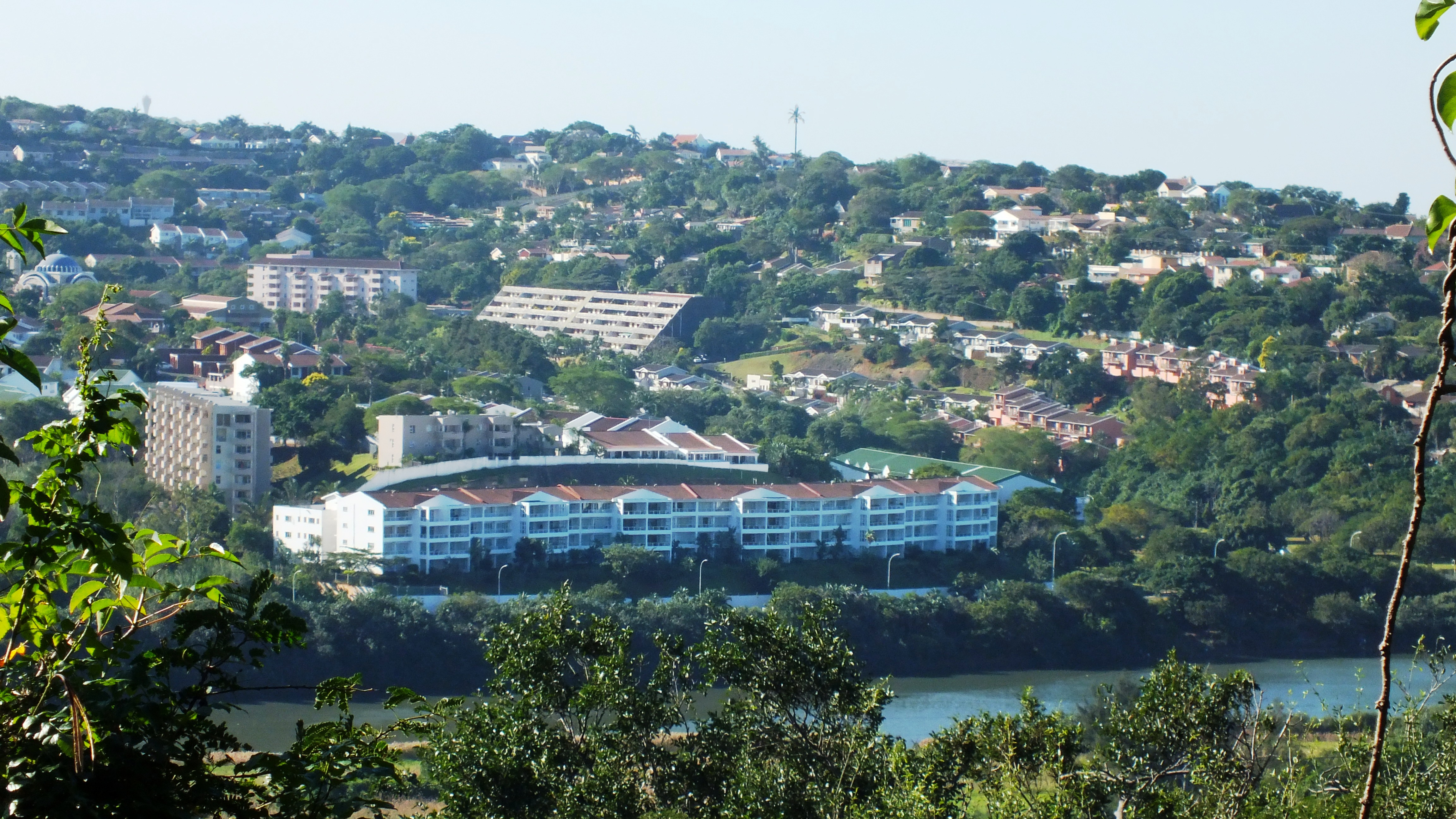 Umgeni Park on the Blue Lagoon in Durban North, South Africa, as seen from a viewing platform in Burman Bush Nature Reserve